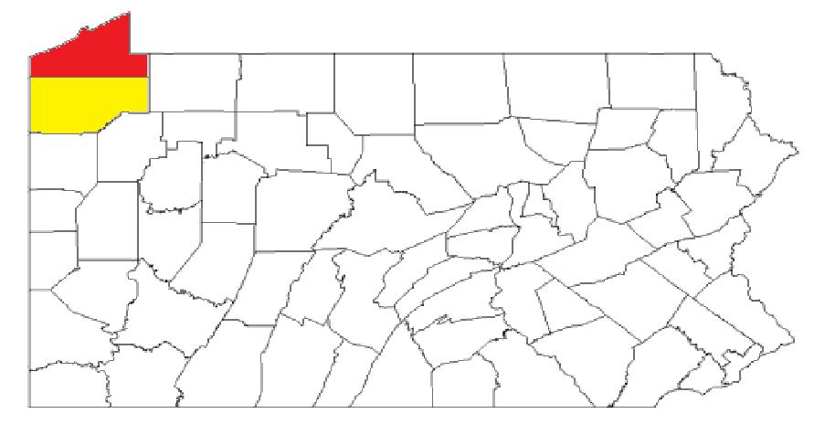 Erie-Meadville, PA CSA 2014